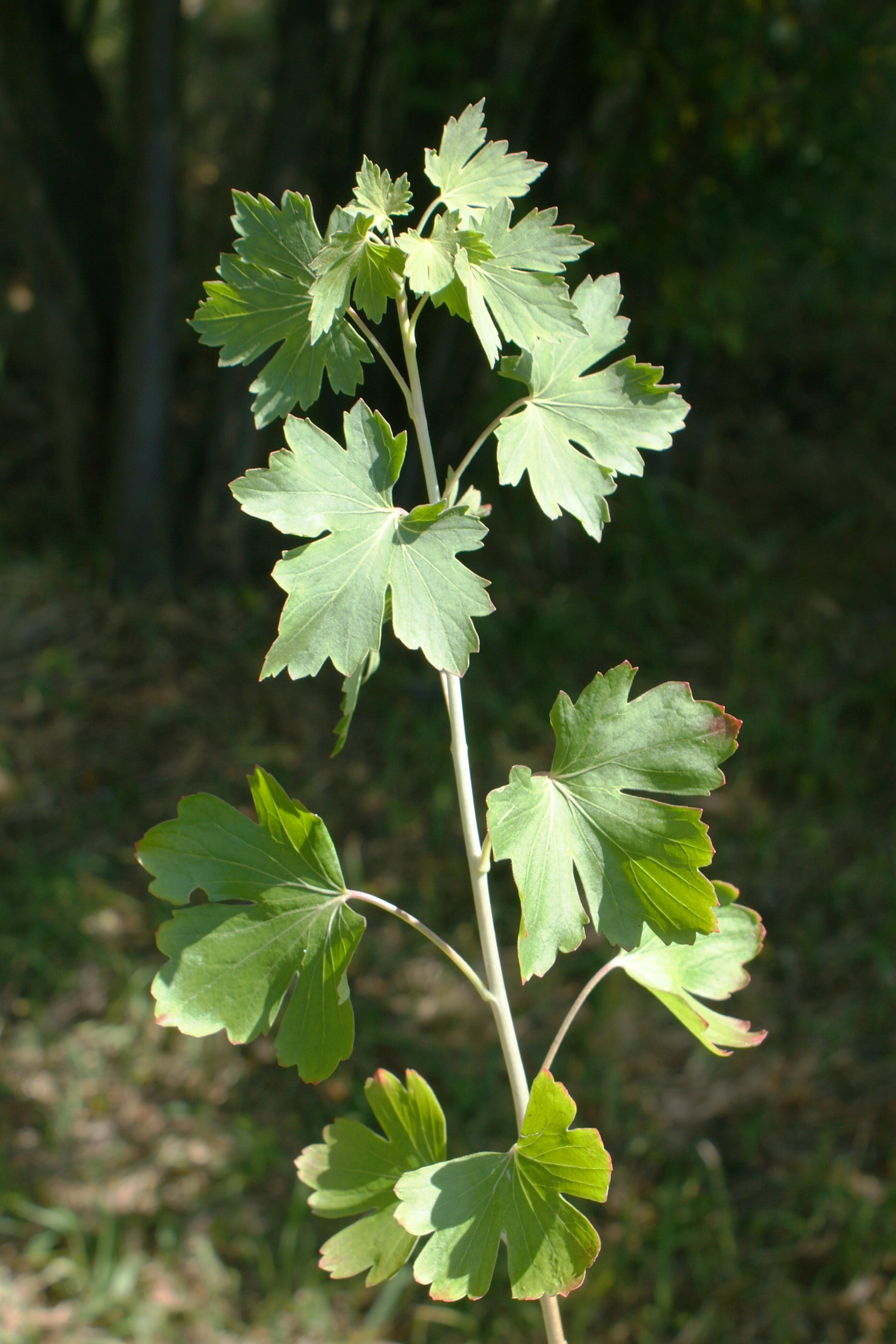 Ribes aureum